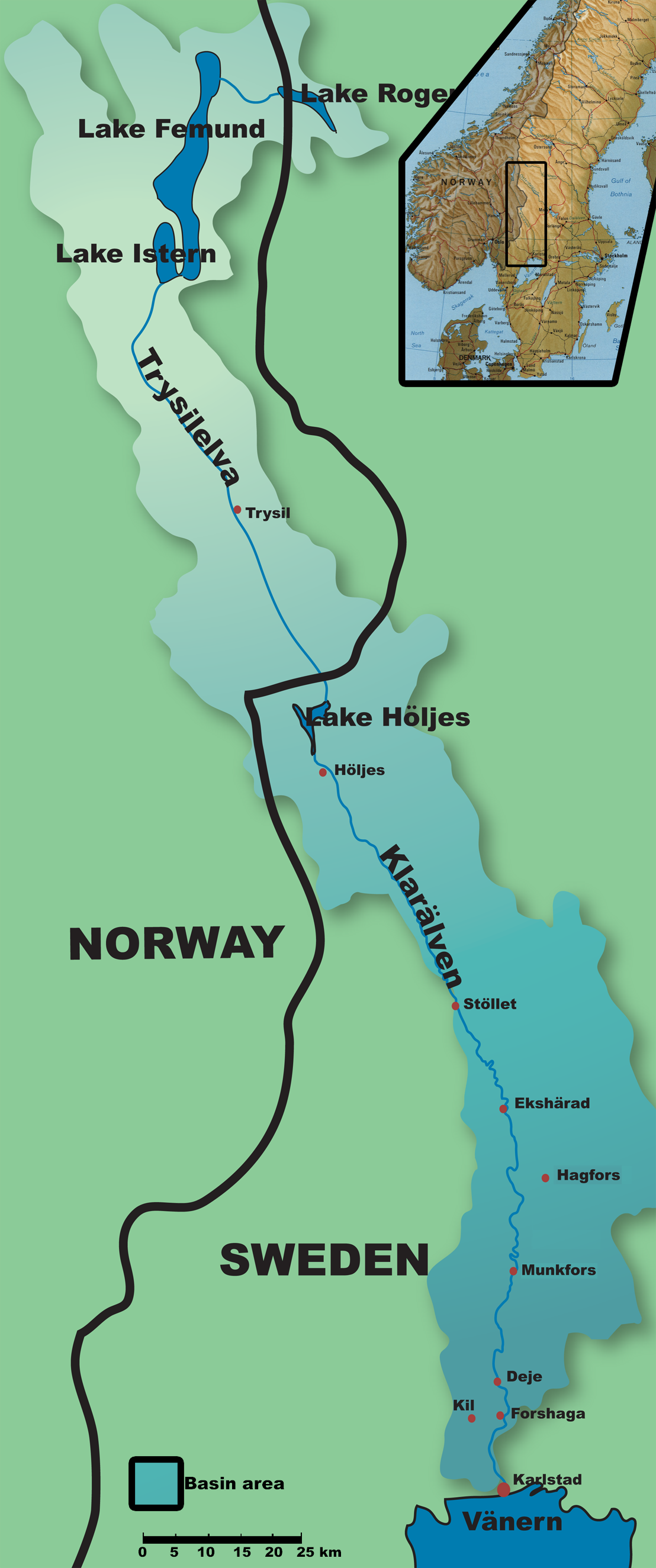 River Klaralven in Norway and Sweden